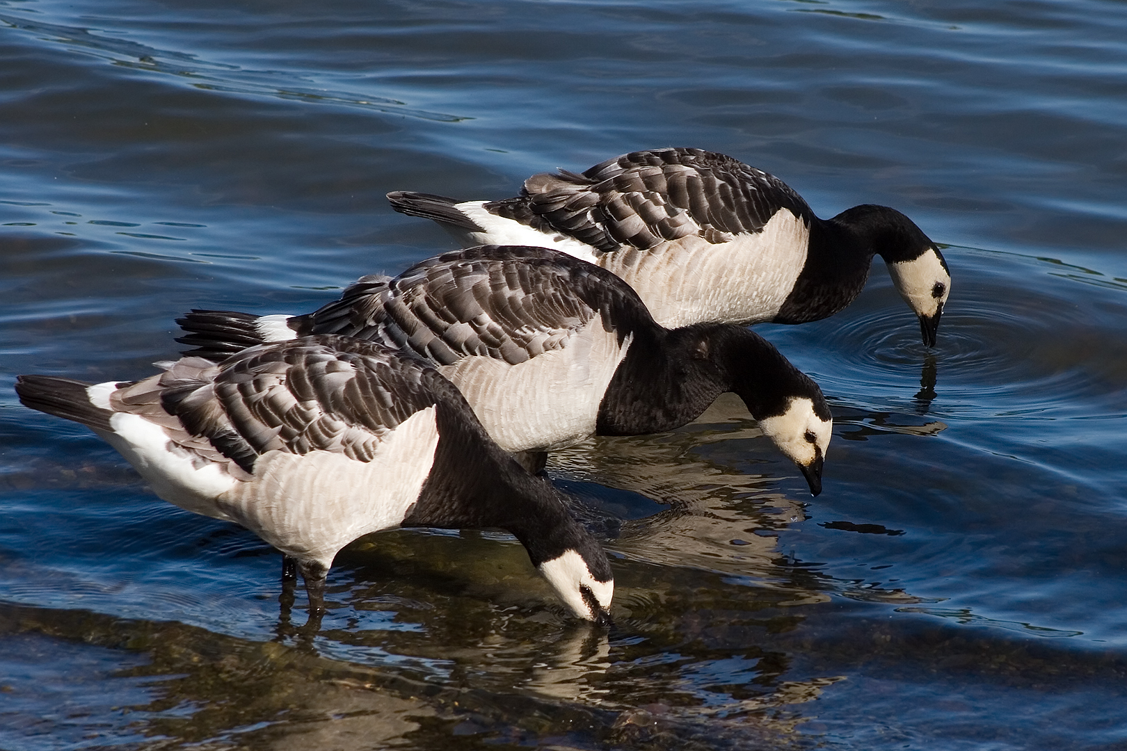 Three Barnacle Geese at Töölönlahti, Finland.